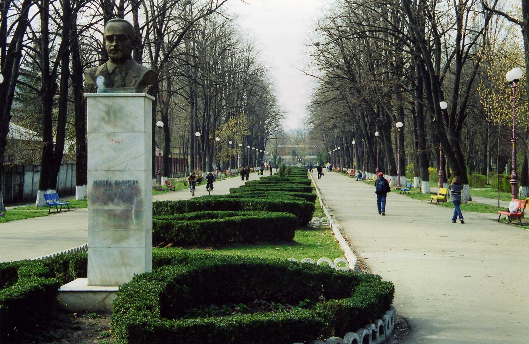 Statue of Mircea Cancikov in a formal park - Parcul Cancikov - which could have appeared quite similarly on a postcard of the early 1900s . Cancicov 1884- 1959 was minister of finance in the late 1930s government in the Kingdom of Carol II and was born in Bacau. Apparently he was arrested in 1944 and sentenced to 20 years in prison at Rimnicu Sârat where he died in 1959, if I read the romanian correctly. Acccording to my Nagel's RUMANIA guide (1960s) this was the park of Liberty (!) Parcul Libertatii.